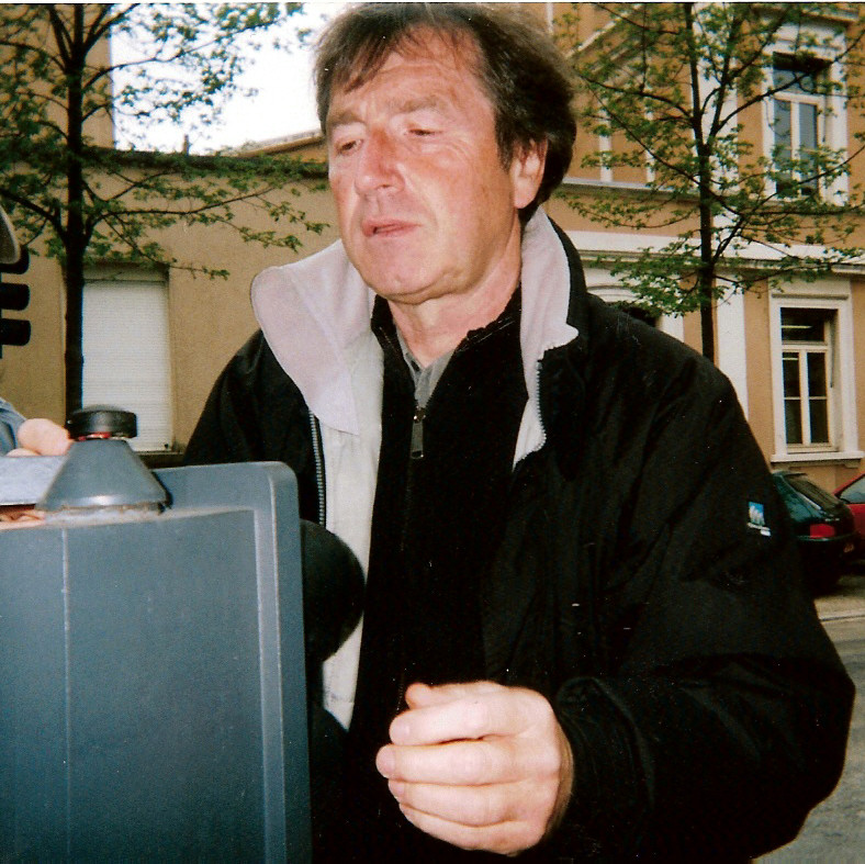 Jean-Pierre Denis on the set of The Girl from the Chartreuse in Grenoble (France).